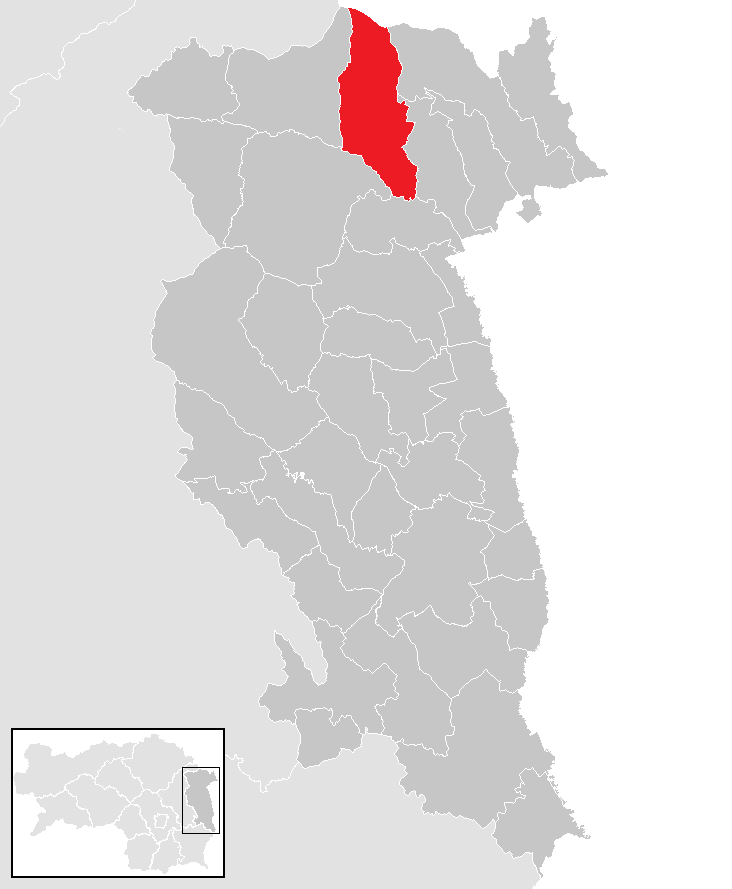 district Hartberg-Fürstenfeld